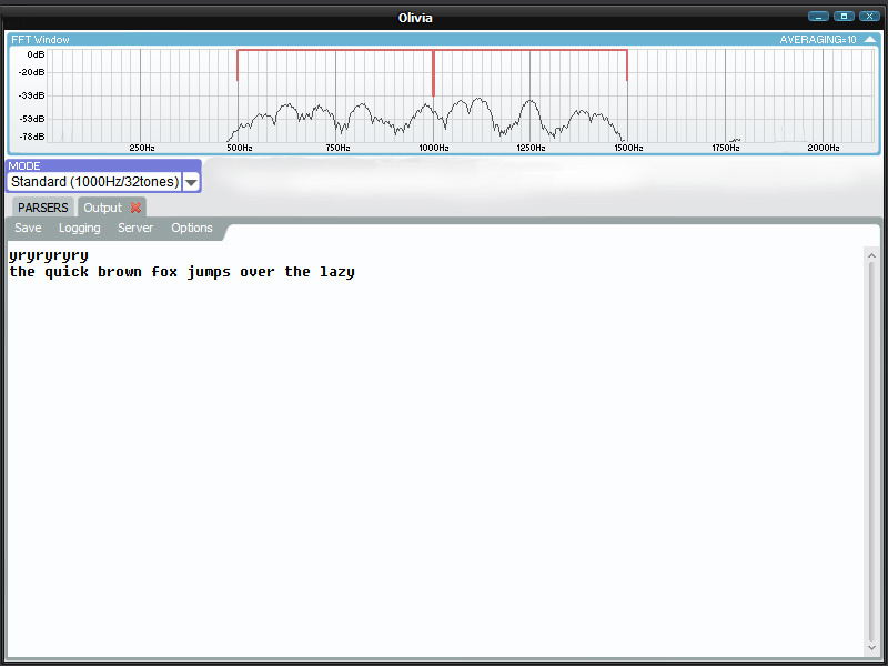 FFT analysis of Olivia MFSK signal with 32 tones on 1000 Hz shift